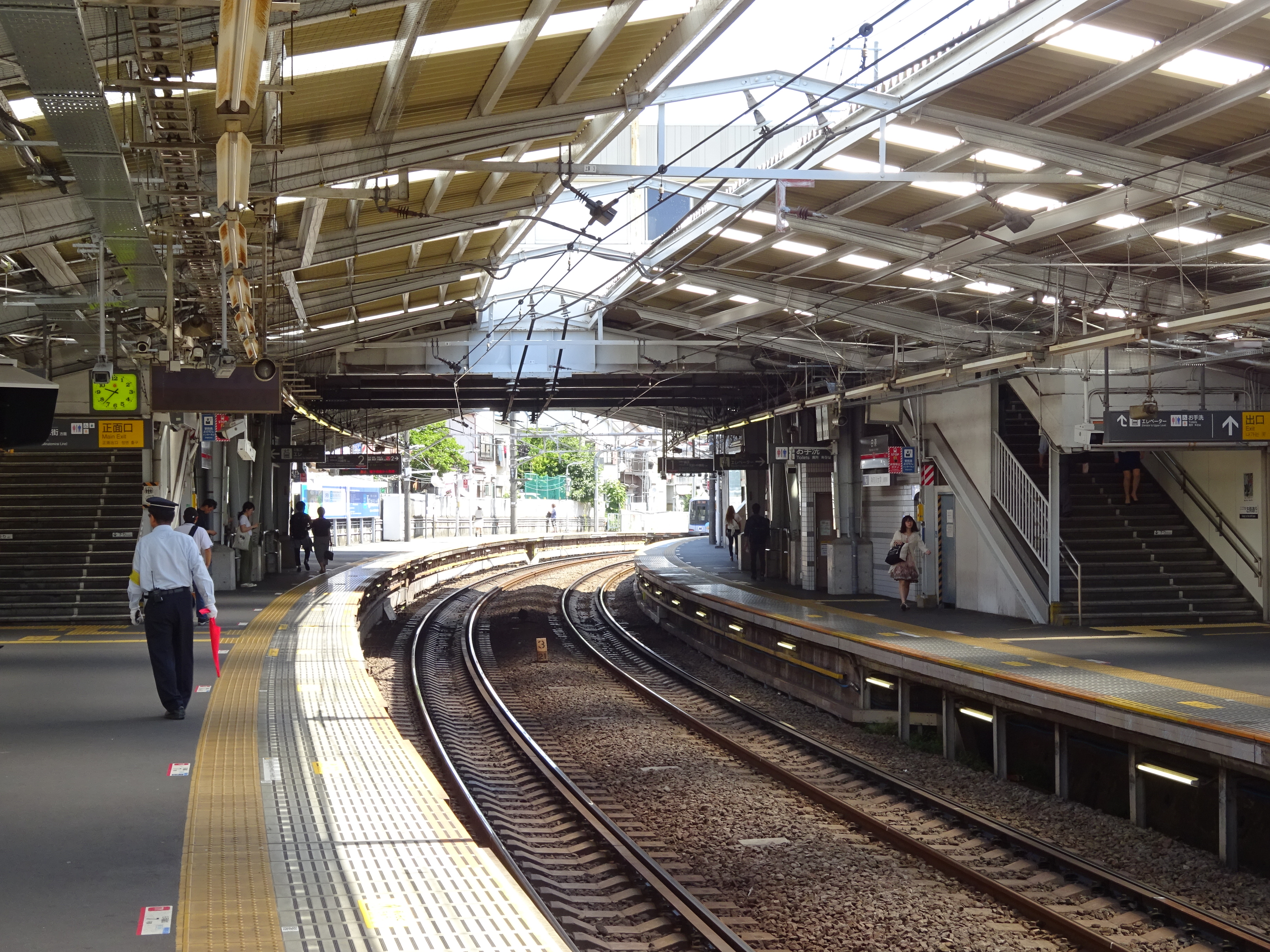 Platforms of Hakuraku Station